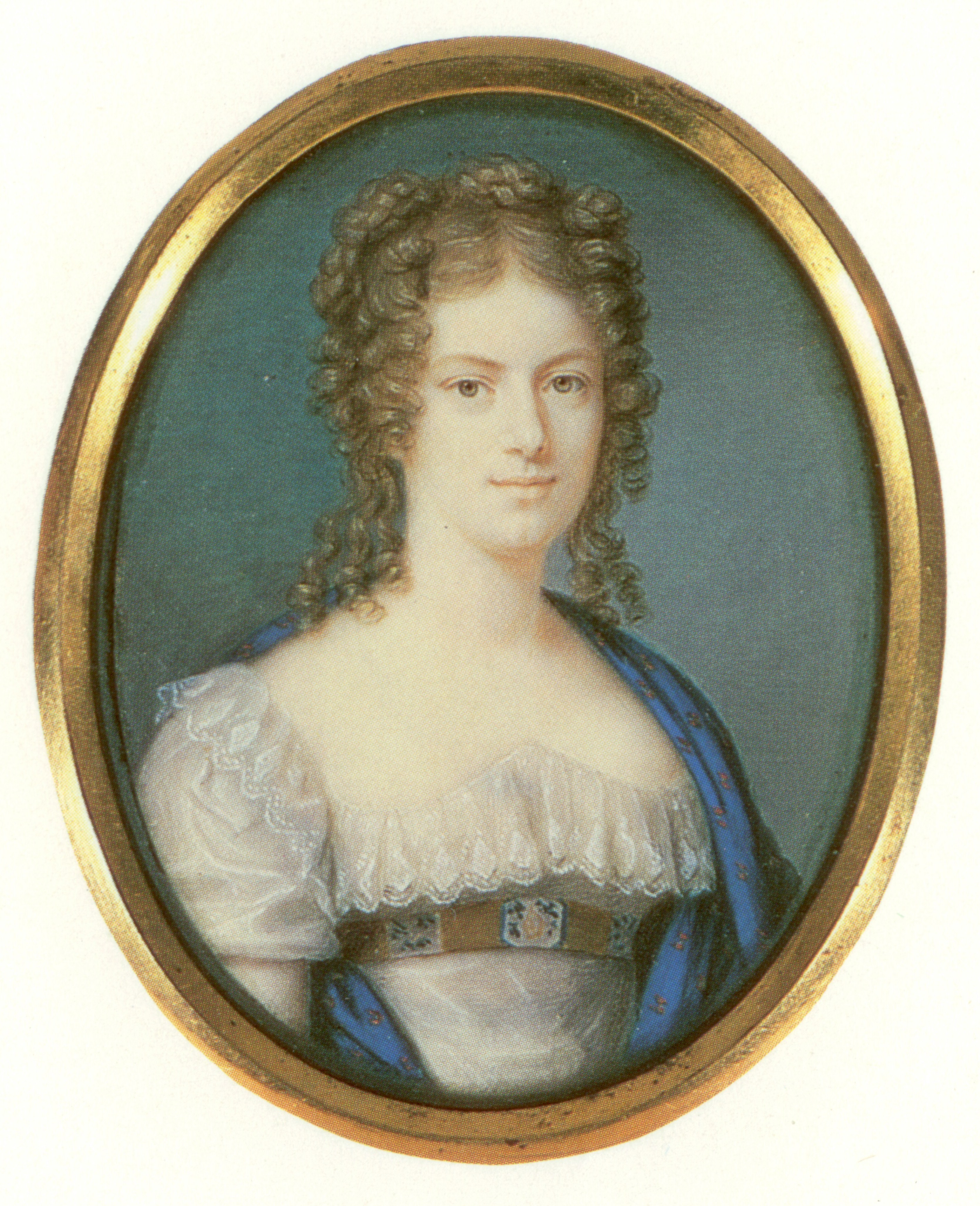 Portrait of Agripina Dolgorukov